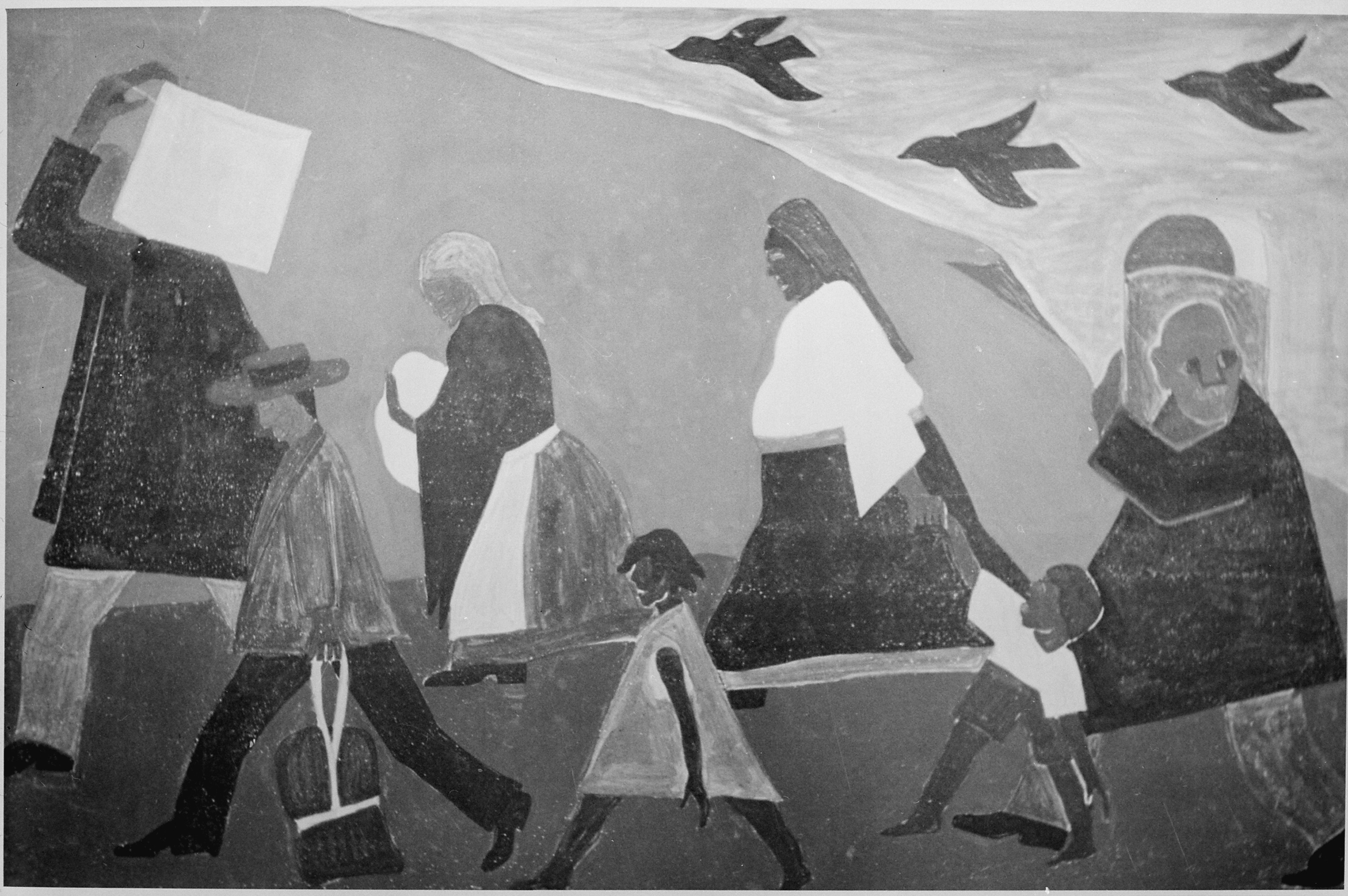 General notes: Painting.